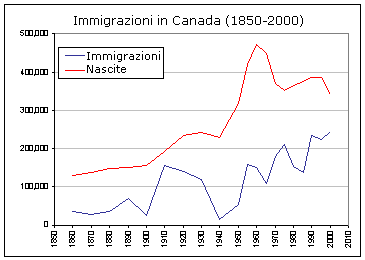 Italian version of File:Canada immigration graph.png